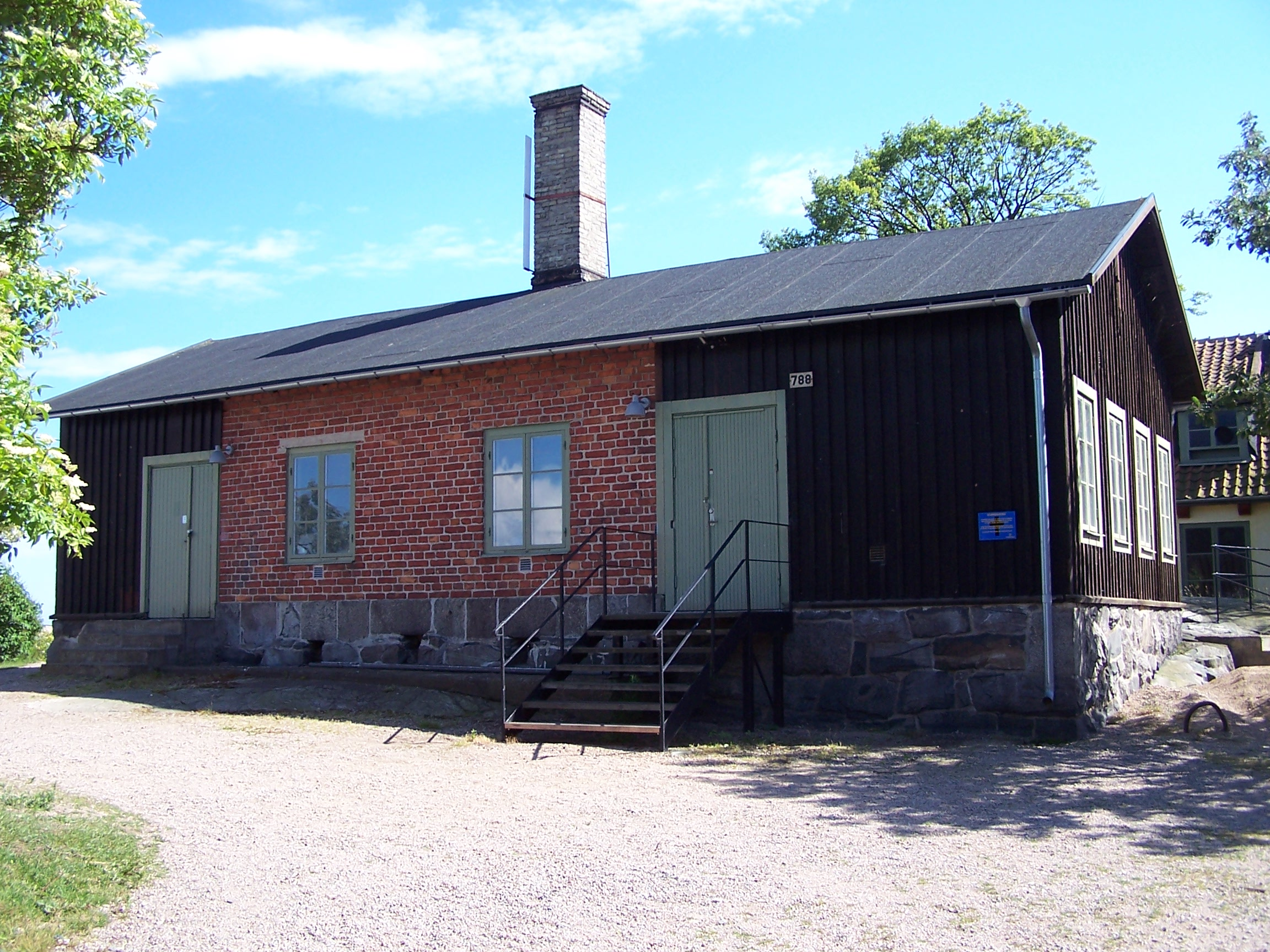 Desinfection house, Stumholmen, Karlskrona